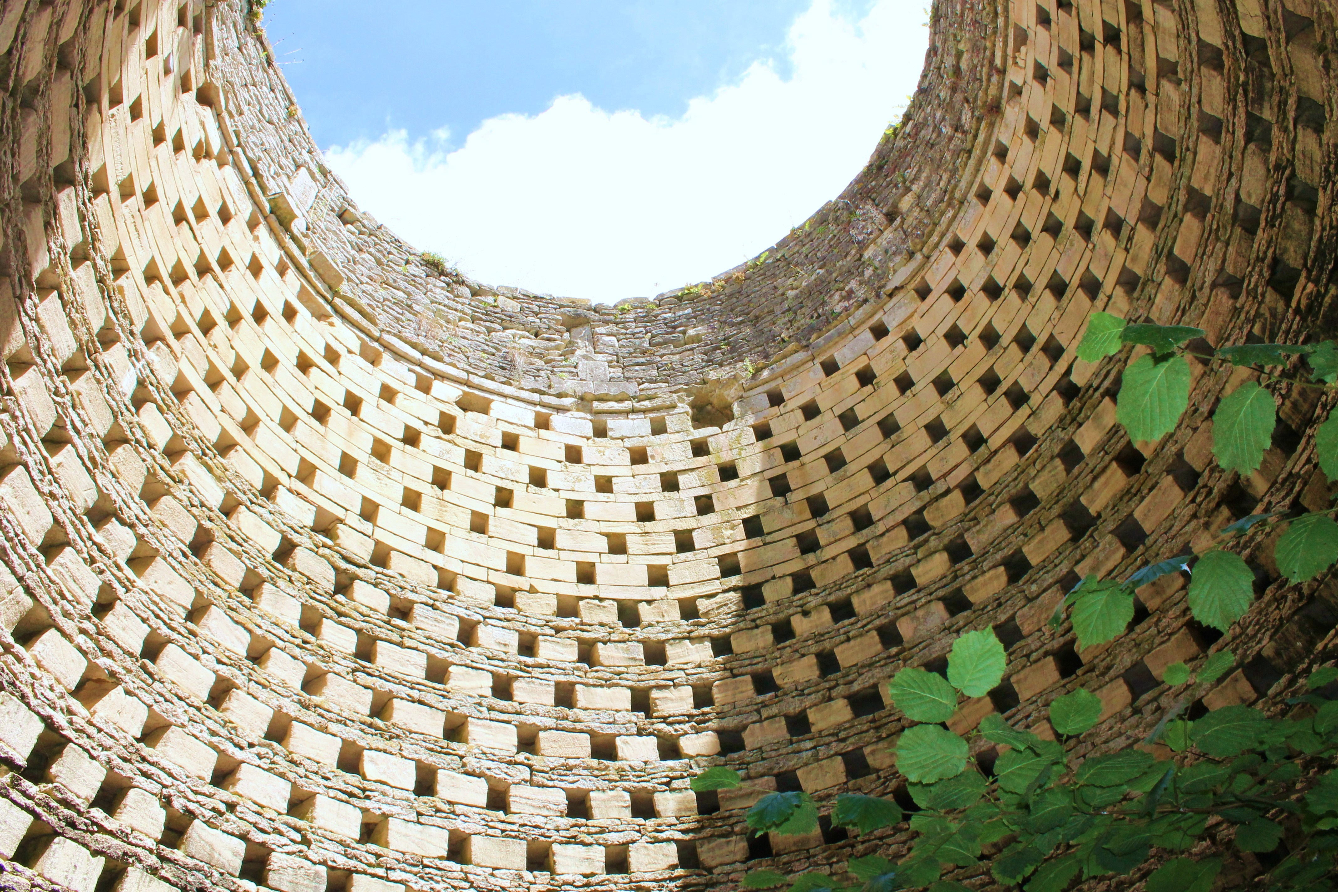 Nest boxes of pigeons in Rosel (Calvados/France)